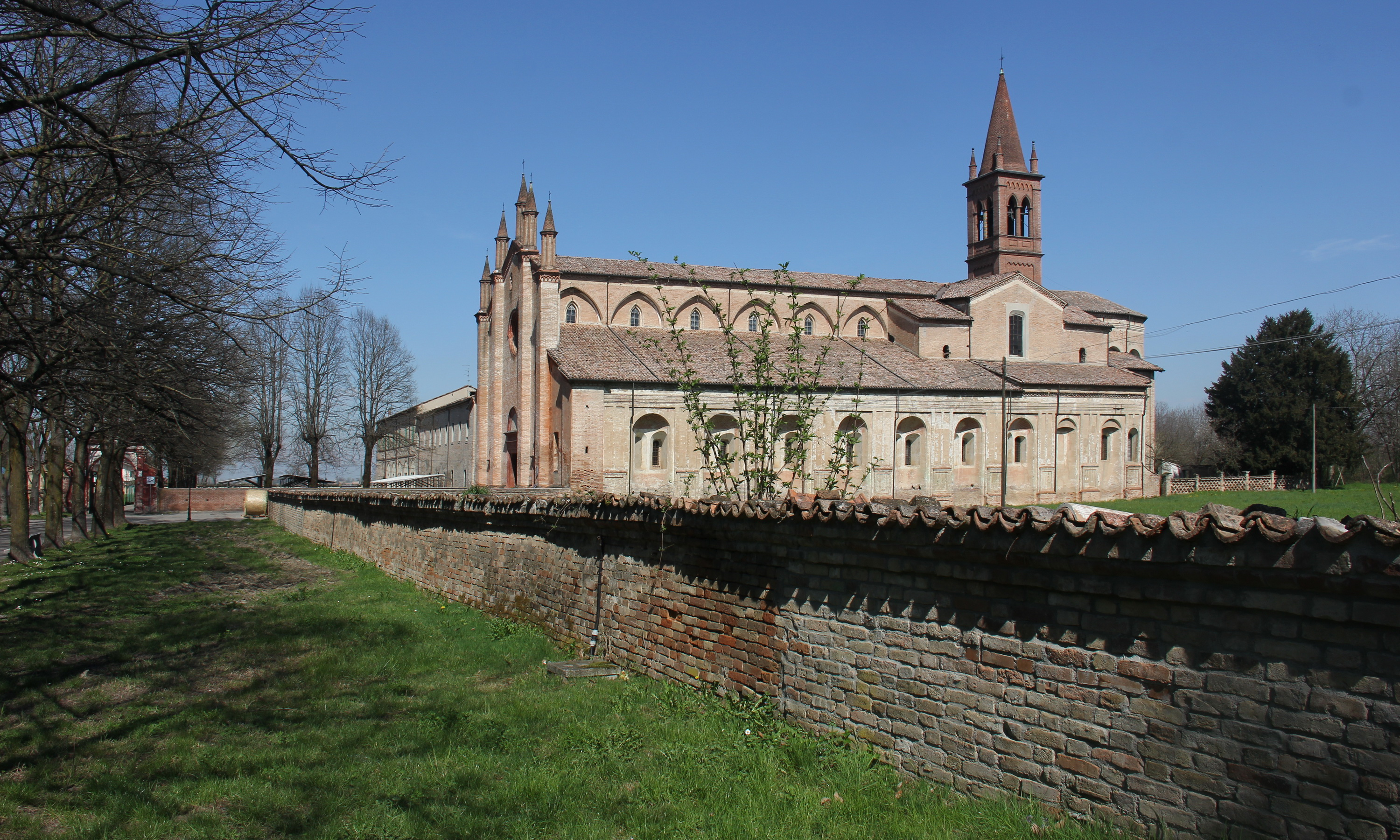 Chiesa e Convento della Santissima Annunziata, Cortemaggiore, Emilia-Romagna, Italy Church of the Franciscans, Cortemaggiore Native nameChiesa dei FrancescaniLocationCortemaggiore, Piacenza, ItalyCoordinates44° 59′ 44.92″ N, 9° 56′ 15.07″ E Authority control : Q18604585 institution QS:P195,Q18604585